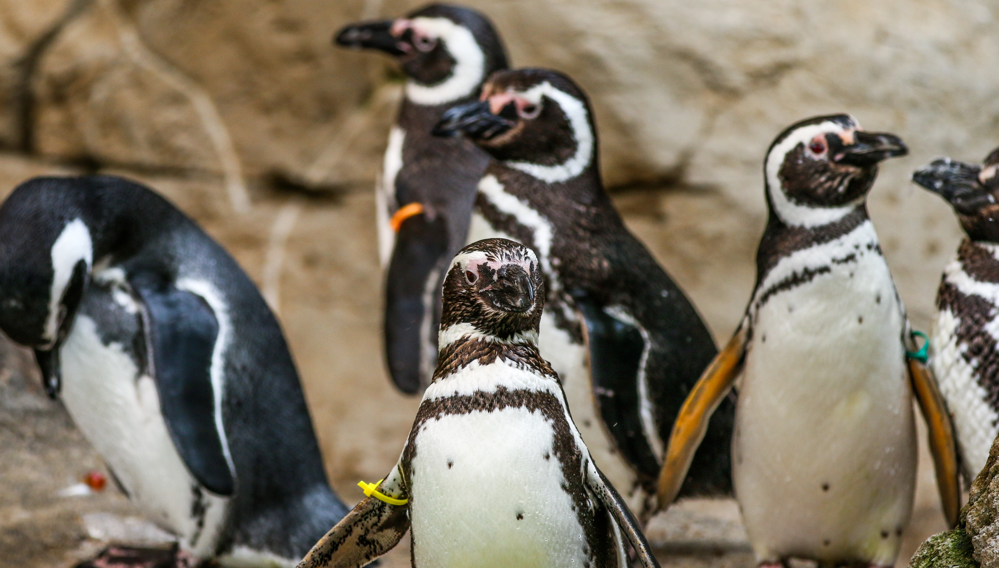 Megallanic Penguins at Potter Park Zoo in Lansing, Michigan.